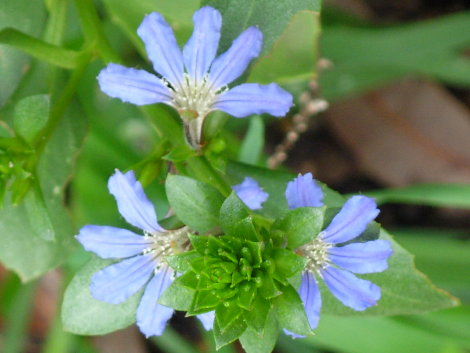 Scaevola crassifolia flower and top bud growing in Darling Range garden (normally found on coastal sand dunes)